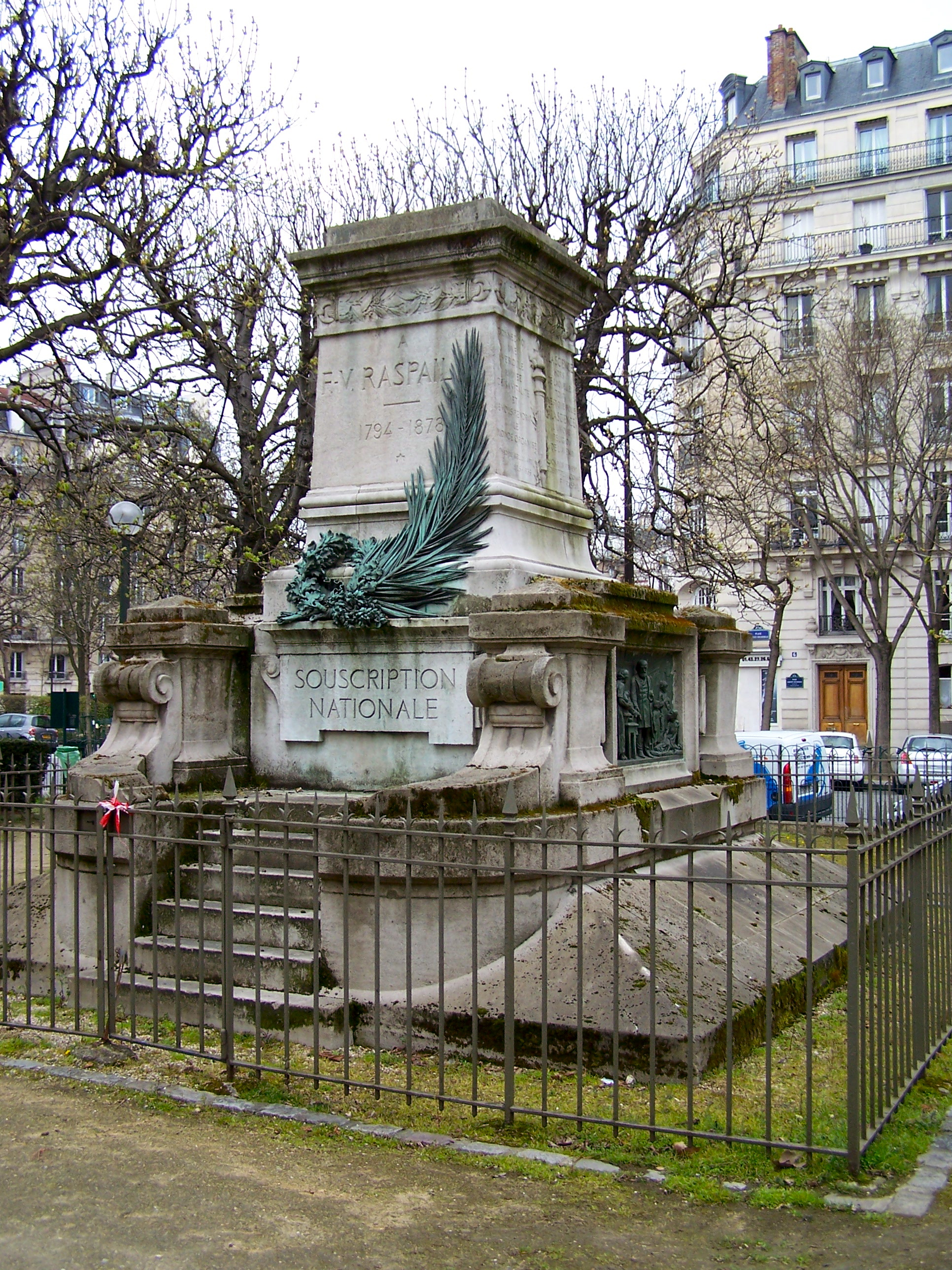 Monument à Raspail du square Jacques-Antoine, place Denfert-Rochereau, Paris